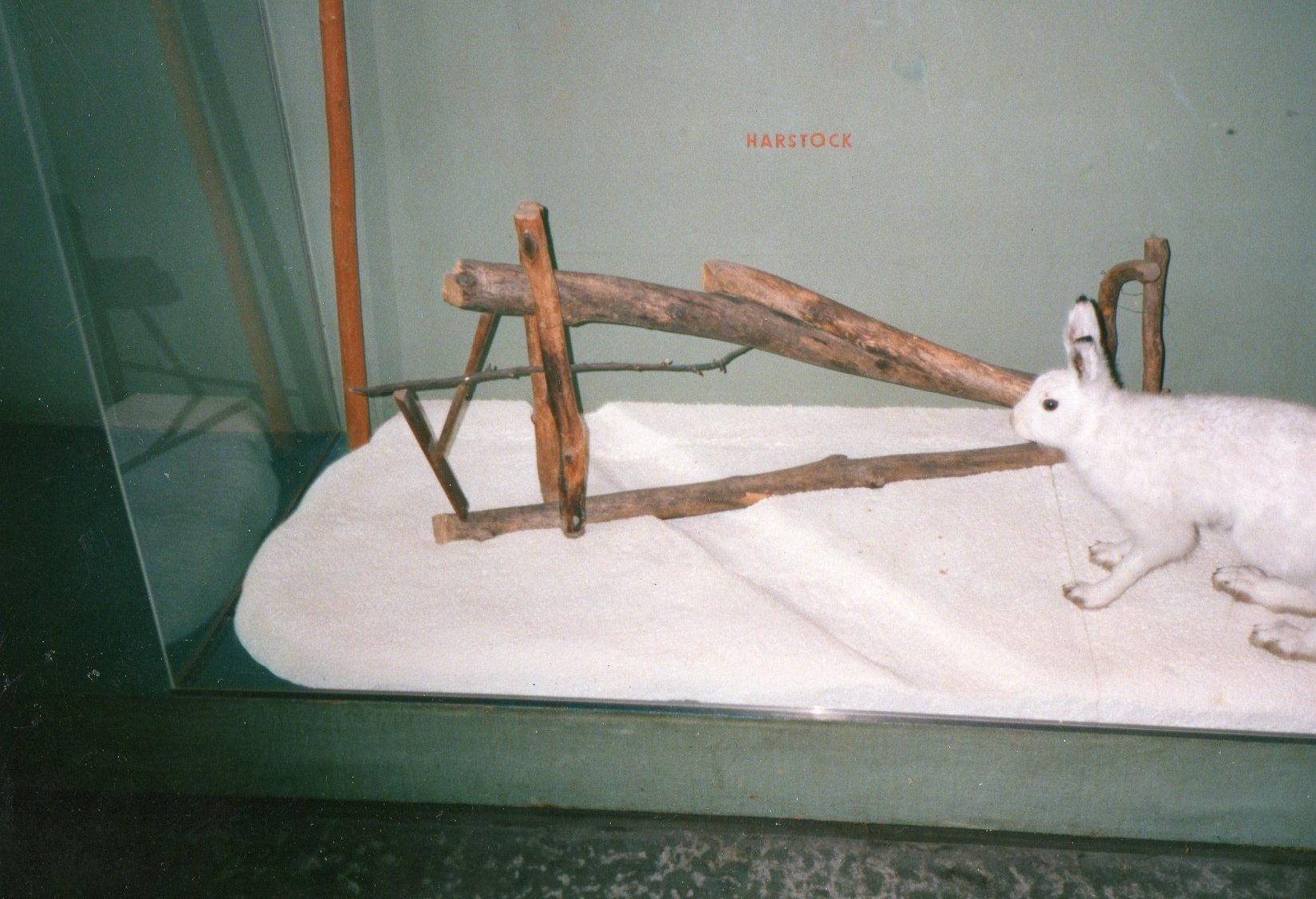 Traps for hunting.